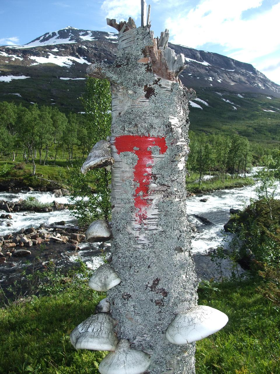 Sjurfjellet from Storengdalen